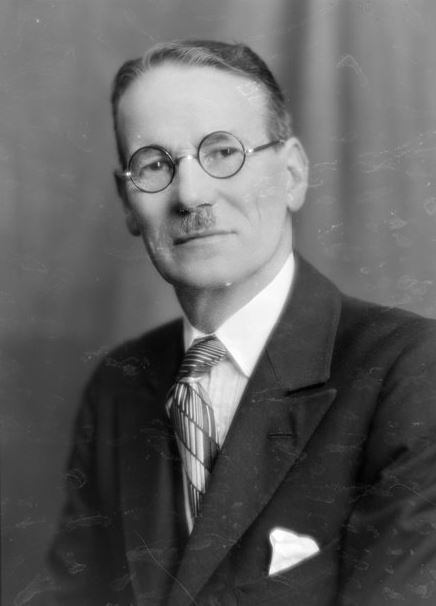 Photograph of Bob Semple